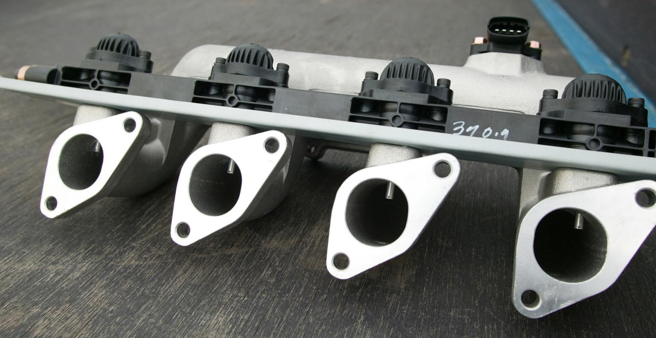 Intake manifold and injectors of LP liquid injection